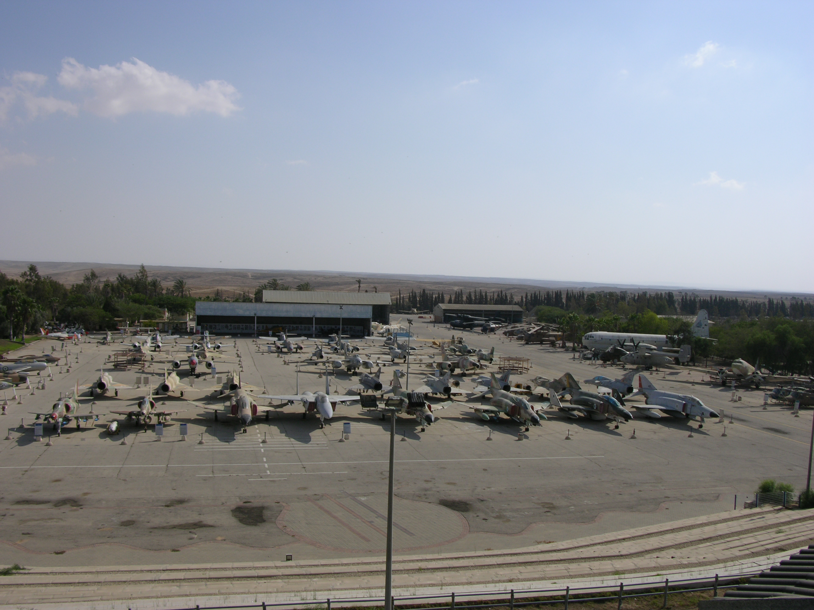 Overview over the Israel Air Force Museum